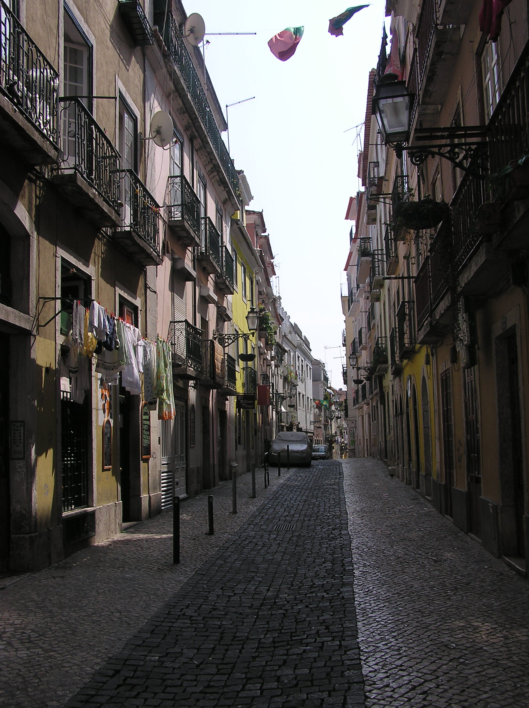 Bairro Alto.